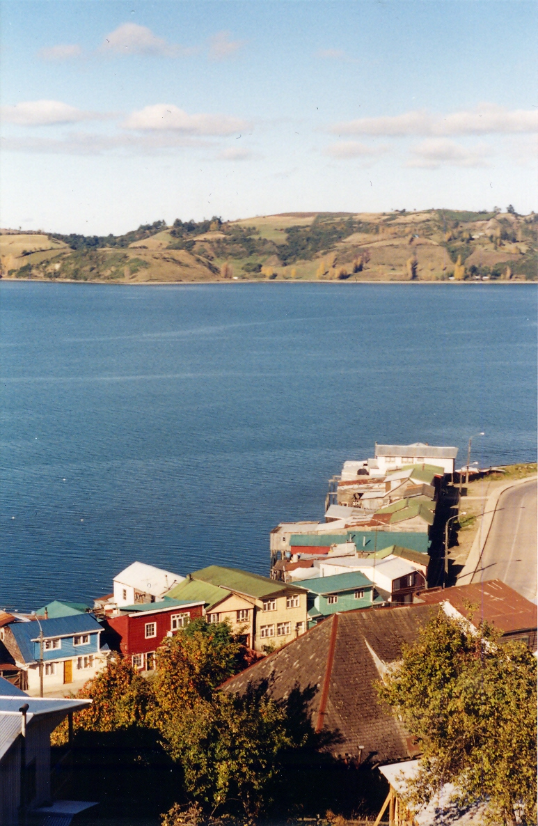 Castro, Chiloé